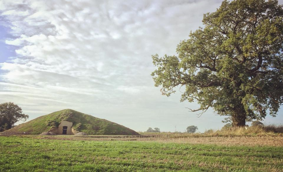 Soulton Long Barrow, autumn 2018